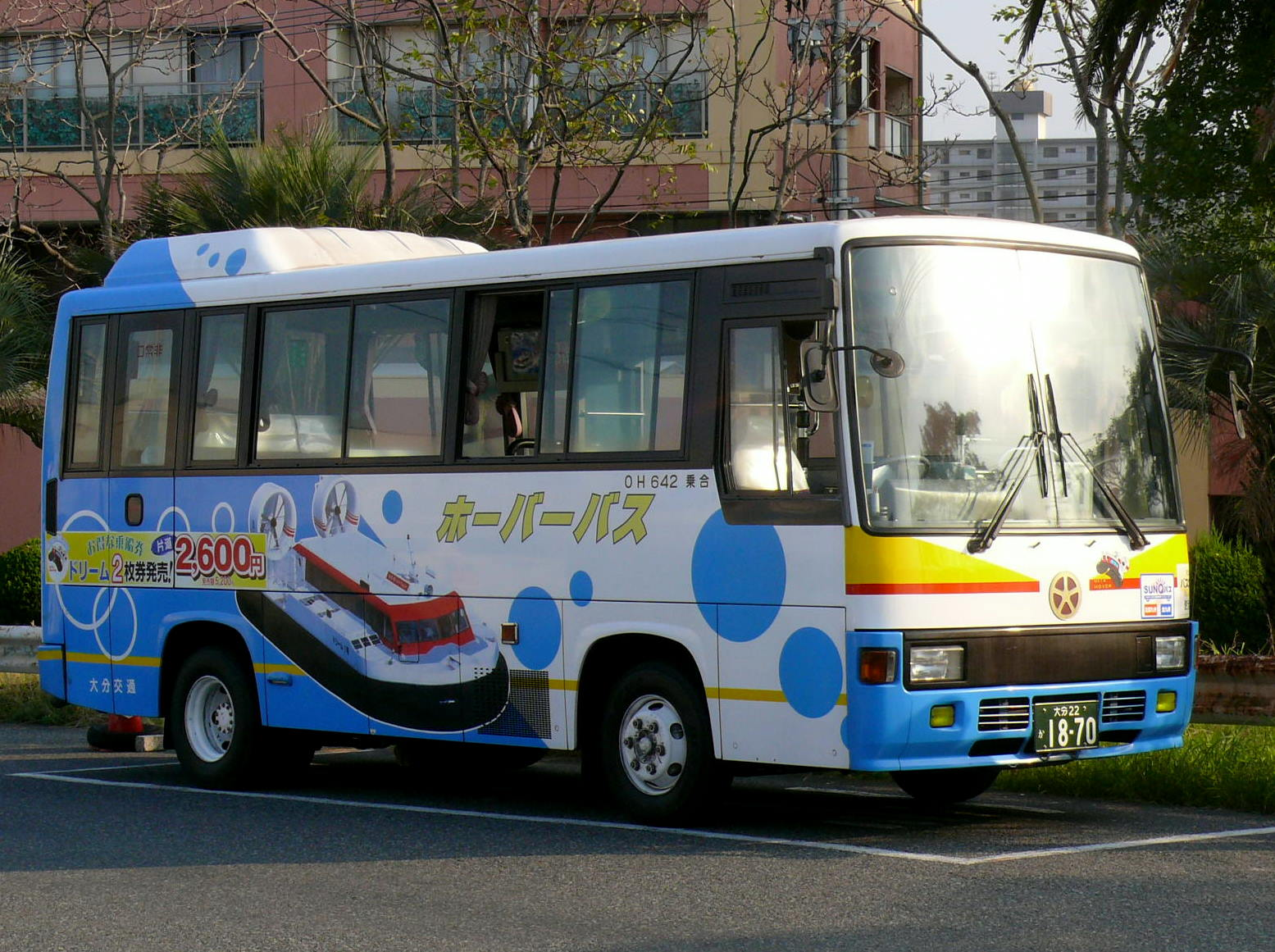 Oita Kotsu Hover Bus.